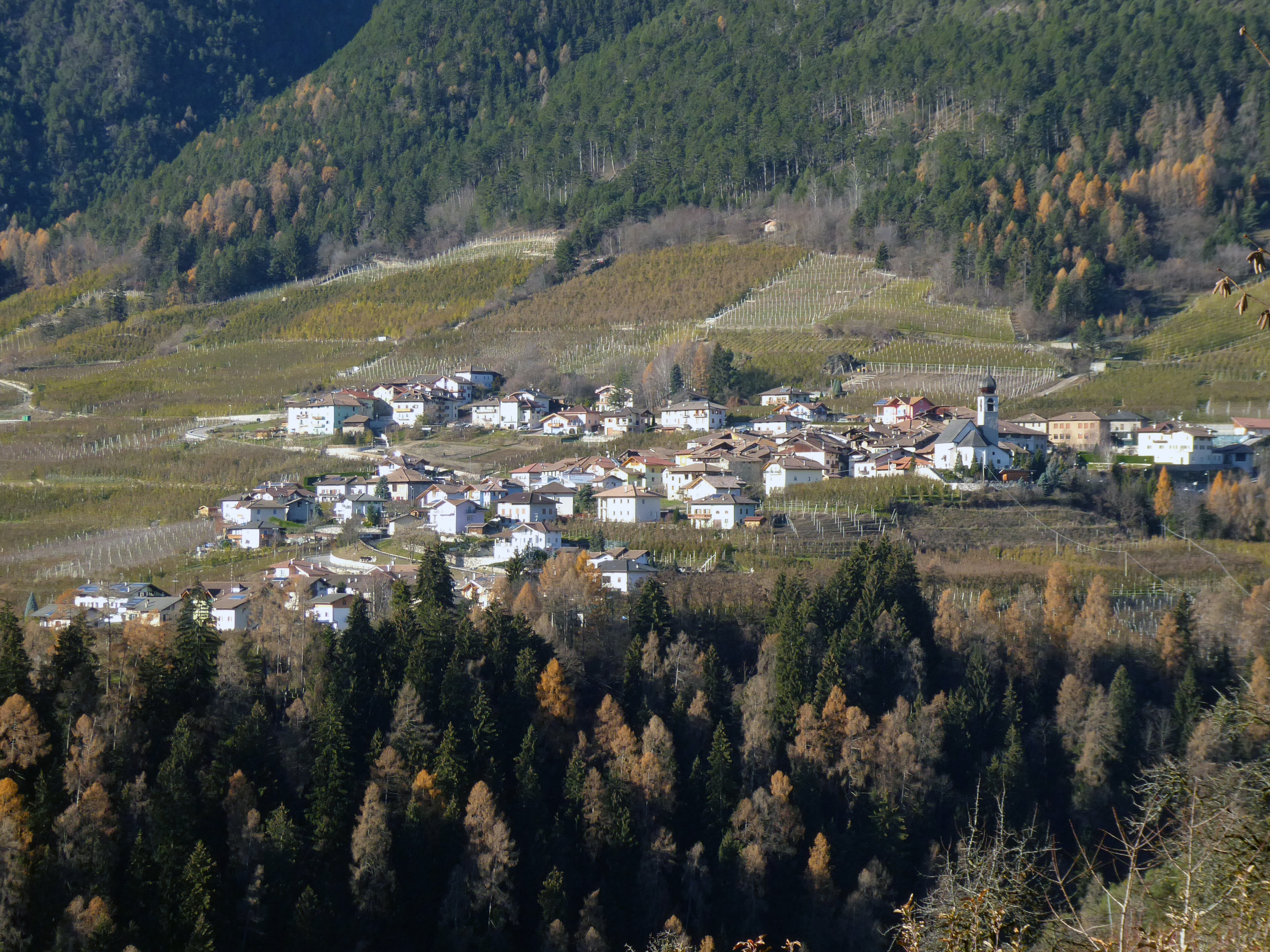 The town of Cis as seen from Varollo (Livo) - Trentino, Italy